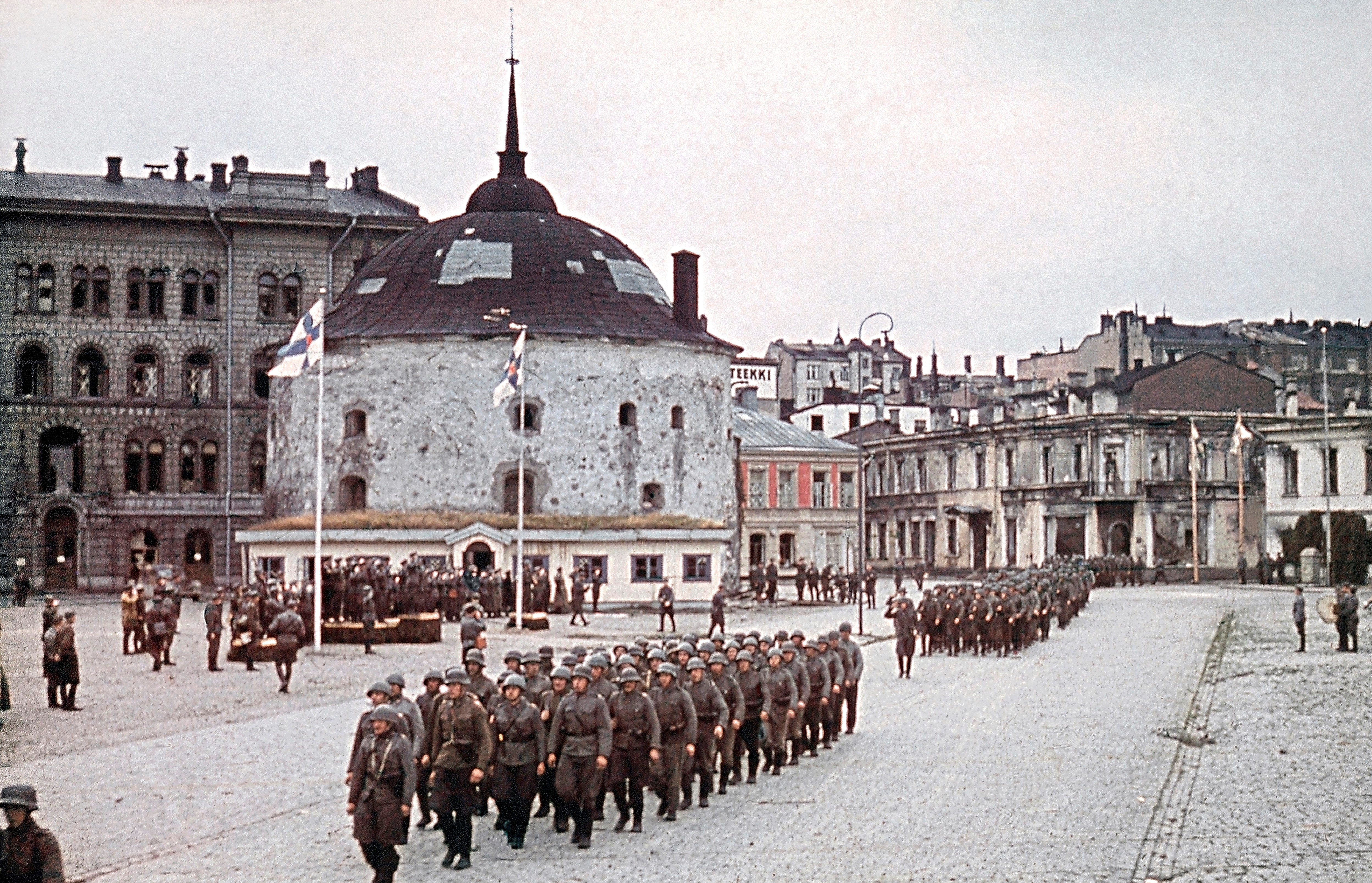 Finnish soldiers of the IV Corps on parade celebrating conquered Vyborg next to the Round Tower during the Continuation War.